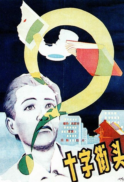 Poster of the film Cross Roads 1937 China